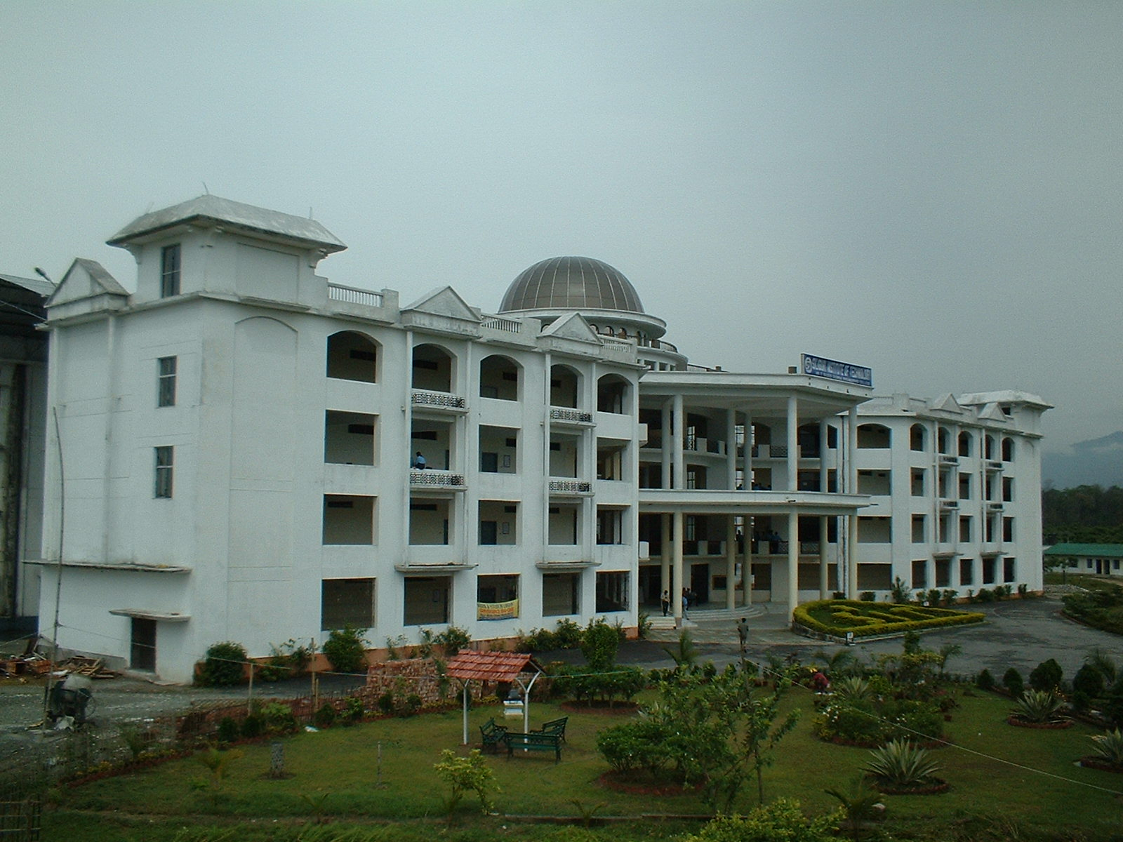 SIT main campus